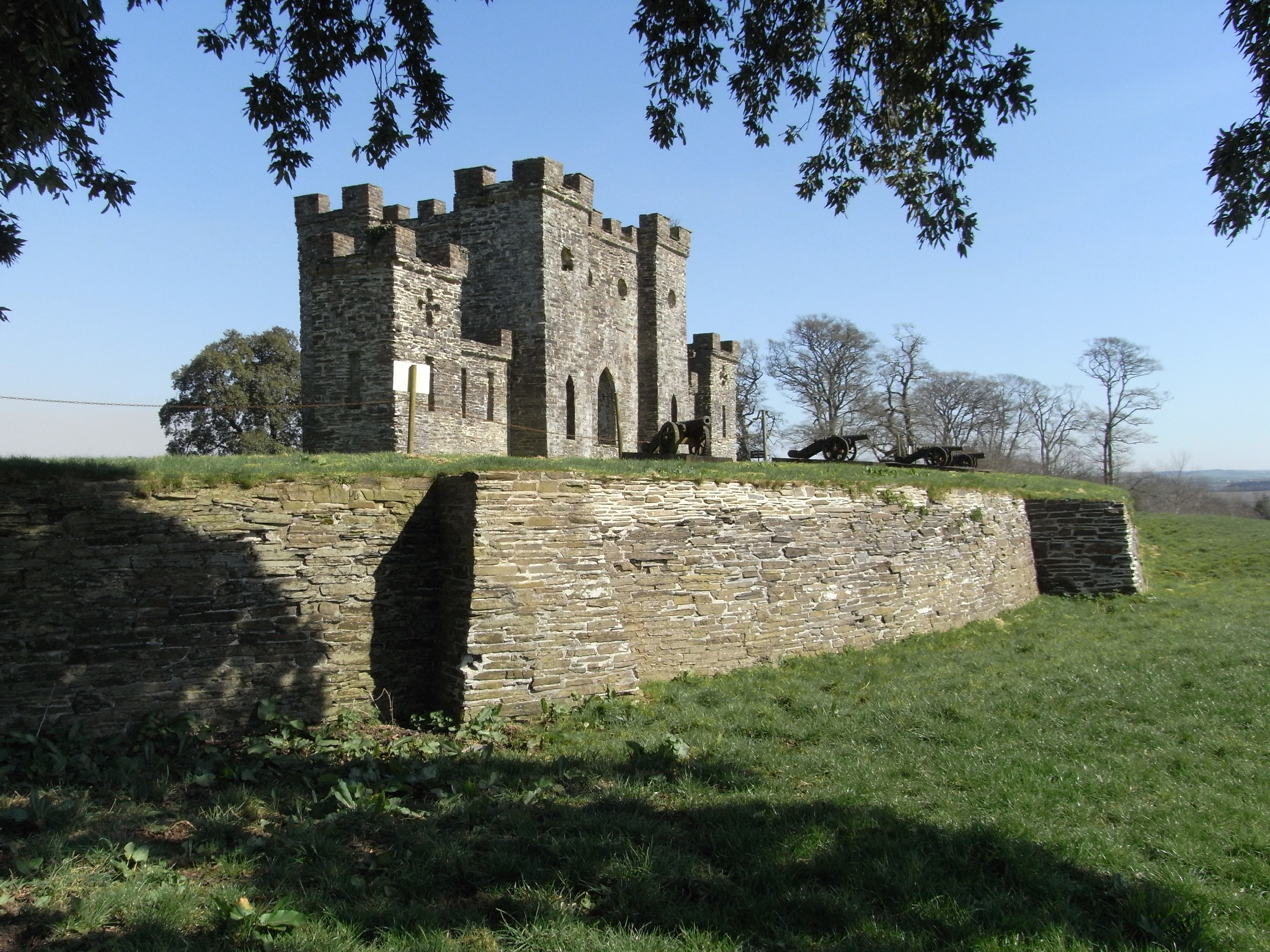 Sham Castle, c.1760, north of Castle Hill mansion, Filleigh, Devon